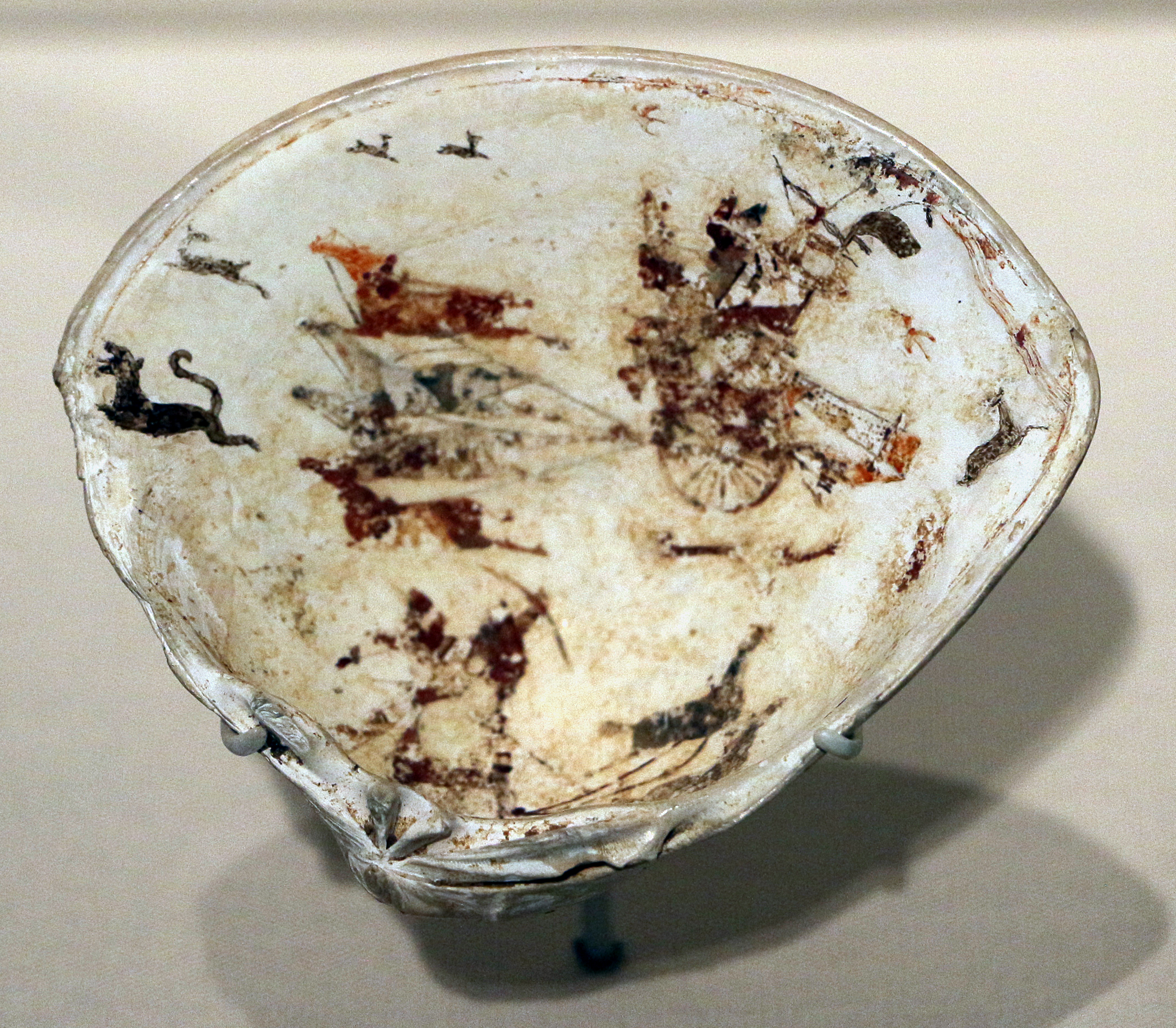 Chinese art in the Cleveland Museum of Art